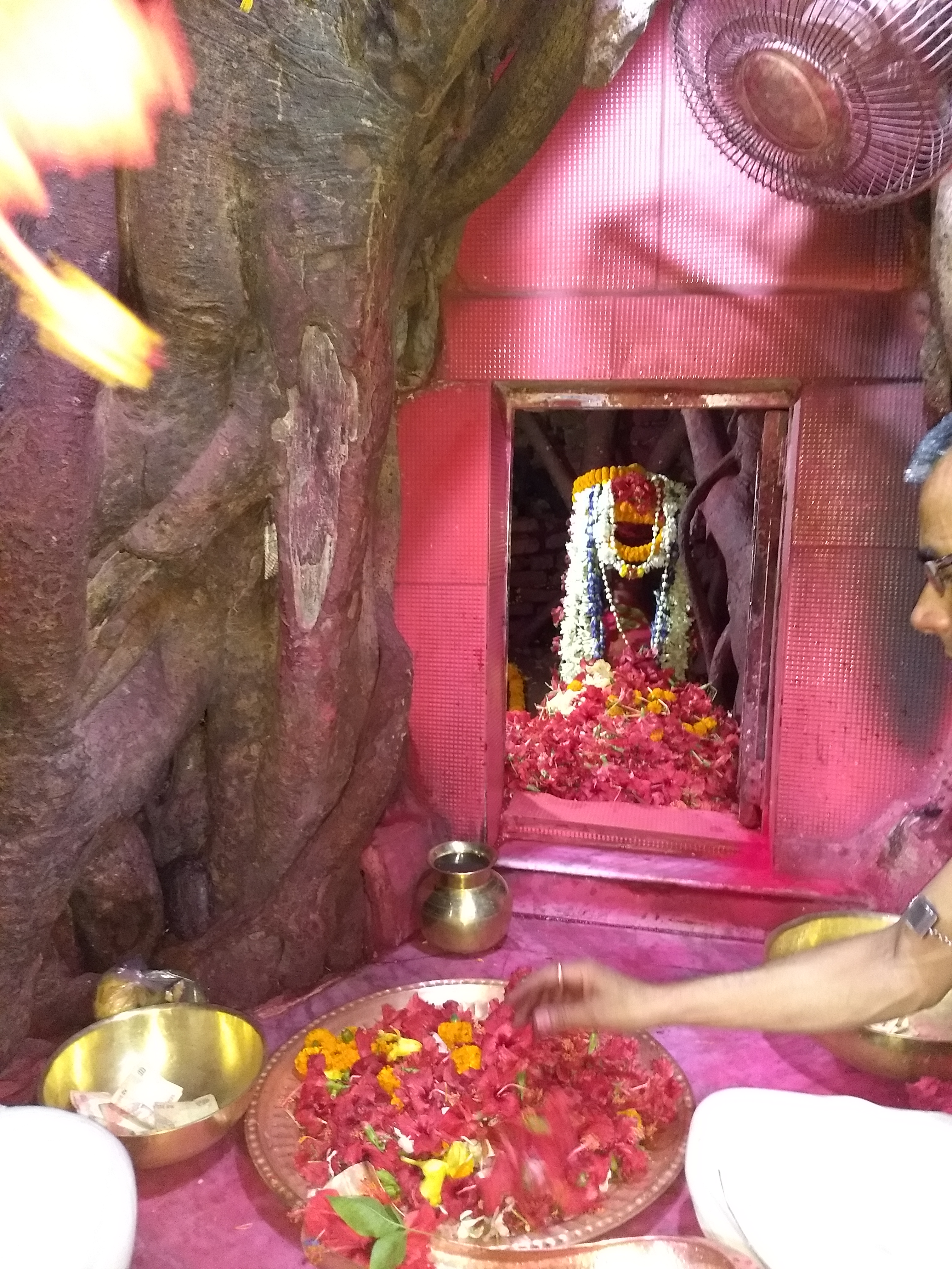 Deity of Porama